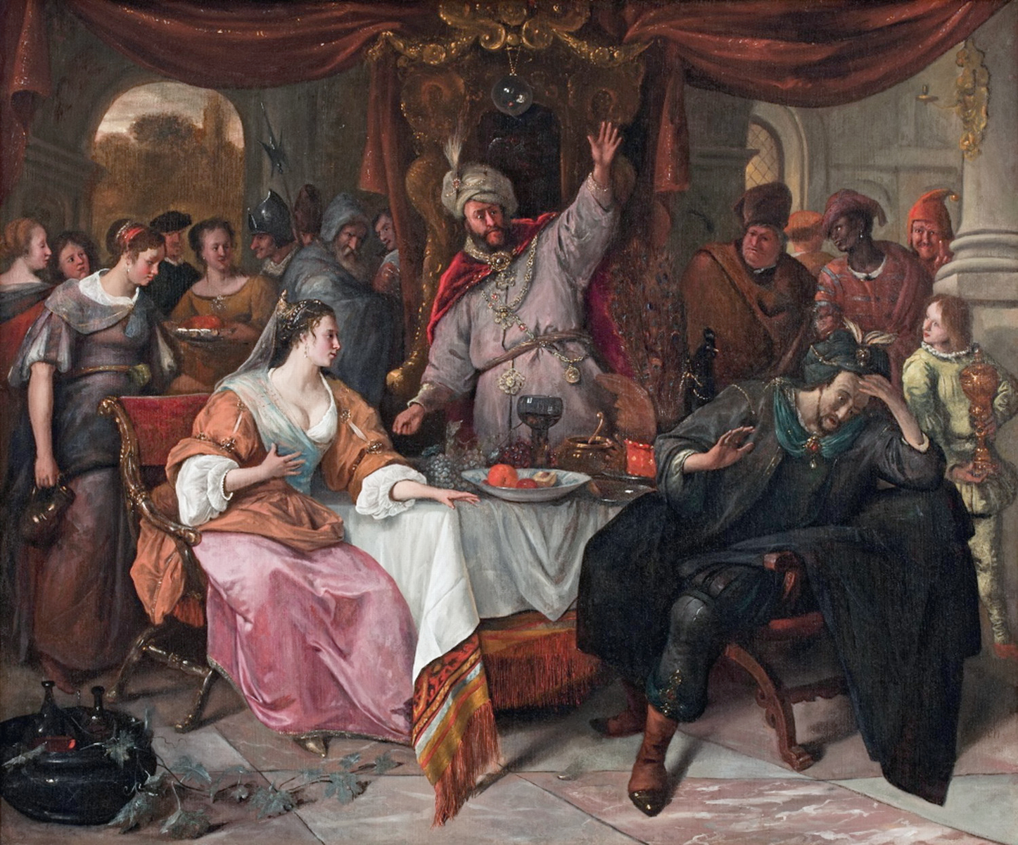 The wrath of Ahasuerus oil on canvas 81.2 x 98.5 cm indistinctly signed r. circa 1668 - 1670 This image is available from the Netherlands Institute for Art Historyunder digital ID 26797. This tag does not indicate the copyright status of the attached work. A normal copyright tag is still required. See Commons:Licensing.